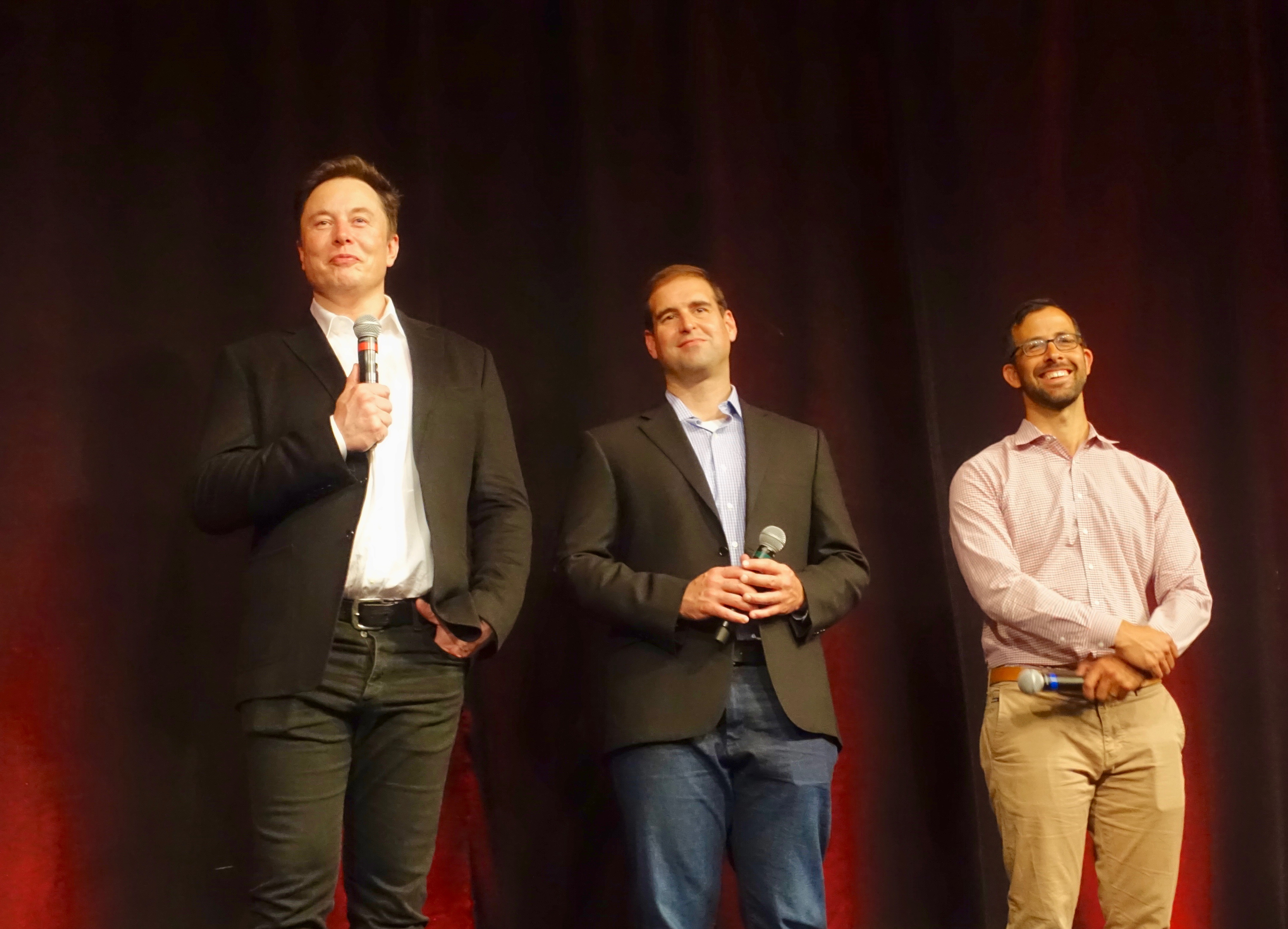 Some fun moments from the Tesla 2019 Annual Shareholder Meeting With Elon and J.B. and Drew, 14+ year Tesla veterans. They started with a board photo from the stage, and ended with questions from the audience.